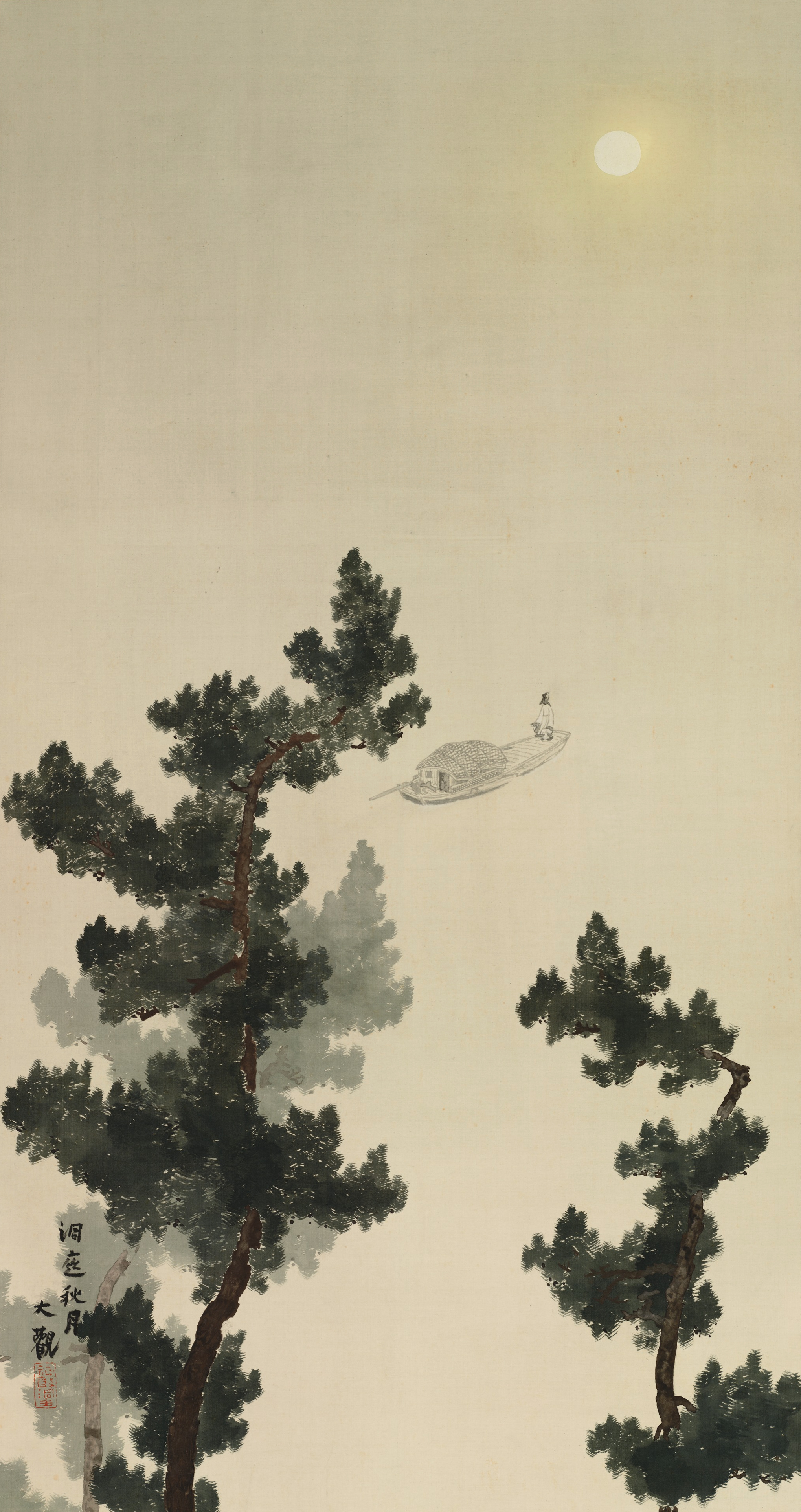 Autumn Moon over Lake Dongting, from Eight Famous Sights of the Xiao River and the Xiang River by Yokoyama Taikan, Tokyo National Museum, Japan